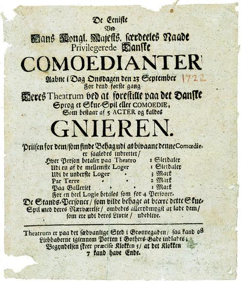 1722 poster from Lille Grønnegade Theatre in Copenhagen, Denmark. Komedie. Gadeplakat fra Lille Grønnegadeteatret i København, 1722. Teatret stod Molière's l'Avare (Gnieren) premiered in September 1722. It was the first play presented in Danish to a broader audience. Molière's name and the names of the actors are not mentioned but it is mentioned twice that the play is in Danish.